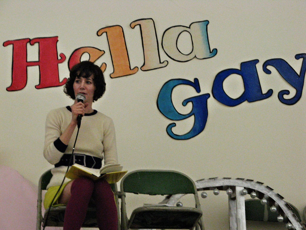 Miranda July reading at Modern Times Books in San Francisco